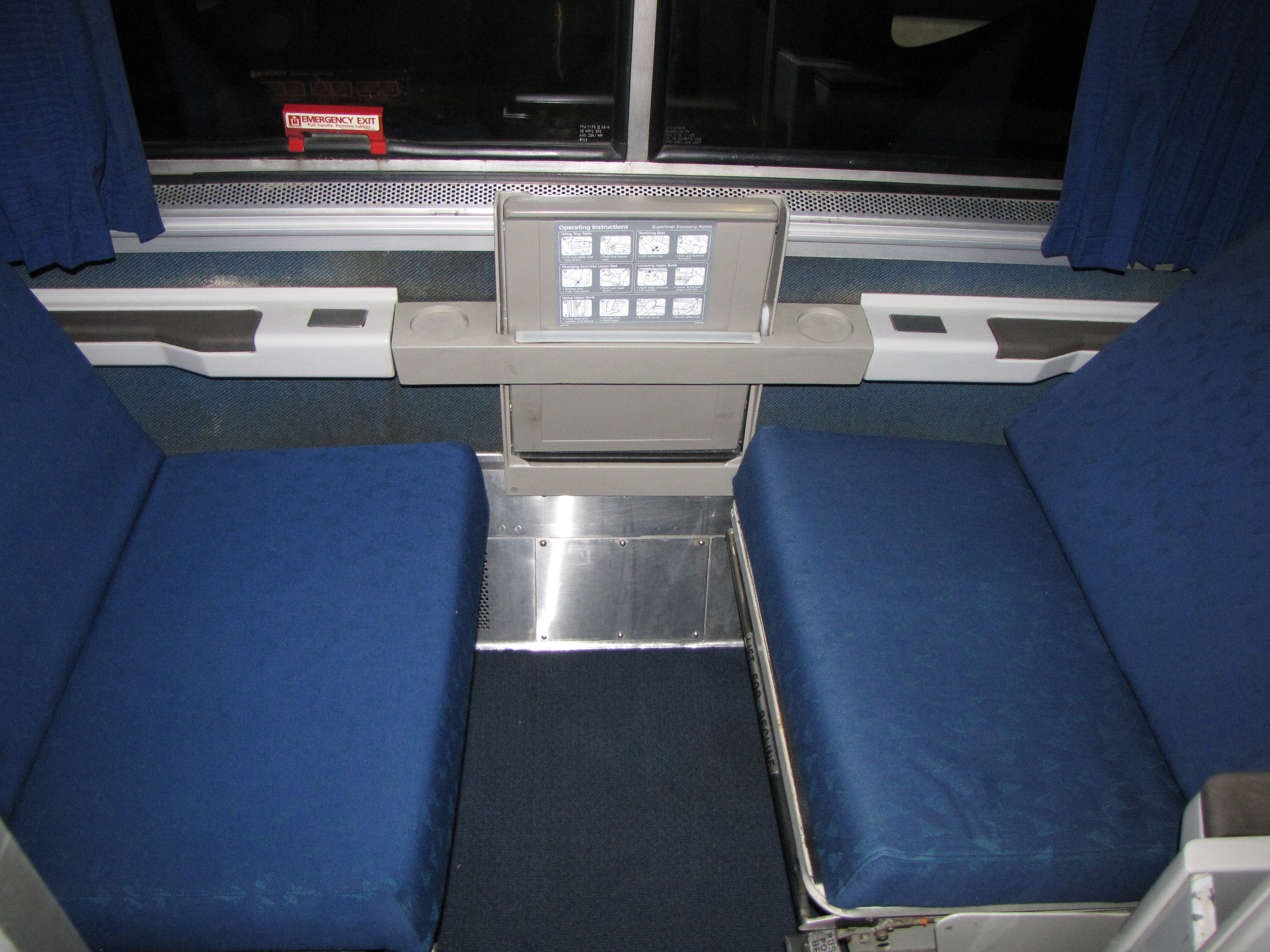 Amtrak Superliner II roomette in daytime configuration. This particular roomette is part of a transition sleeper car.